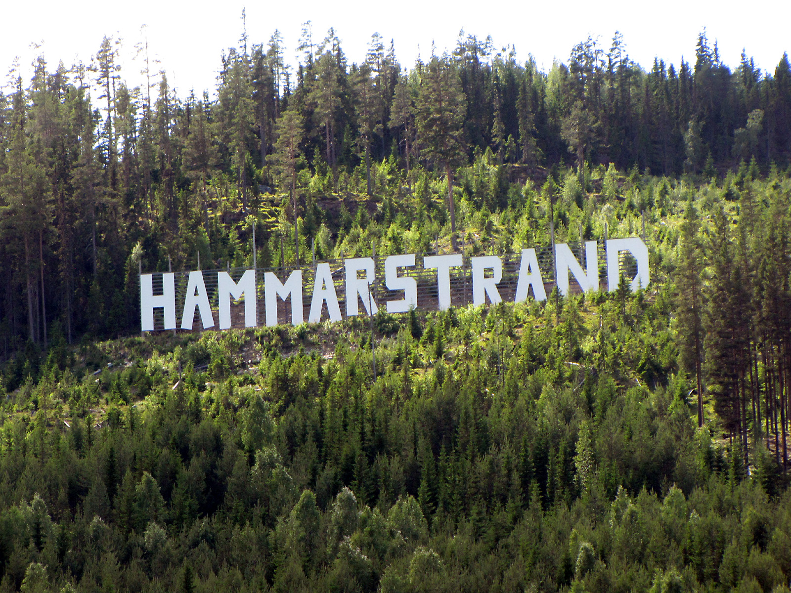 A "Hollywood style" sign in Hammarstrand in Ragunda Municipality, Sweden.